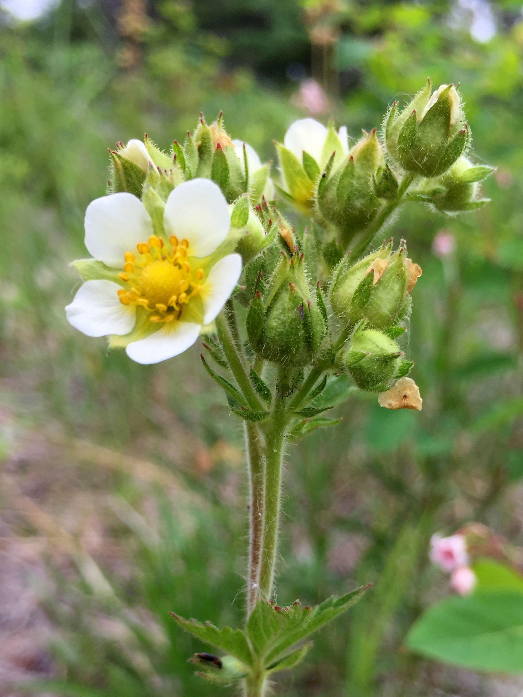 Drymocallis arguta blooming beside Bear Lake trail in Whiteshell Provincial Park on June 17, 2017.